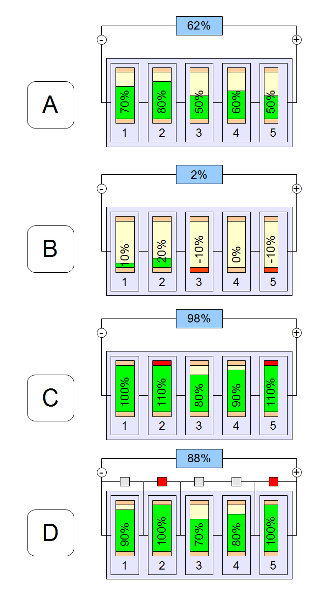 unbalanced cell state of charge in a battery pack